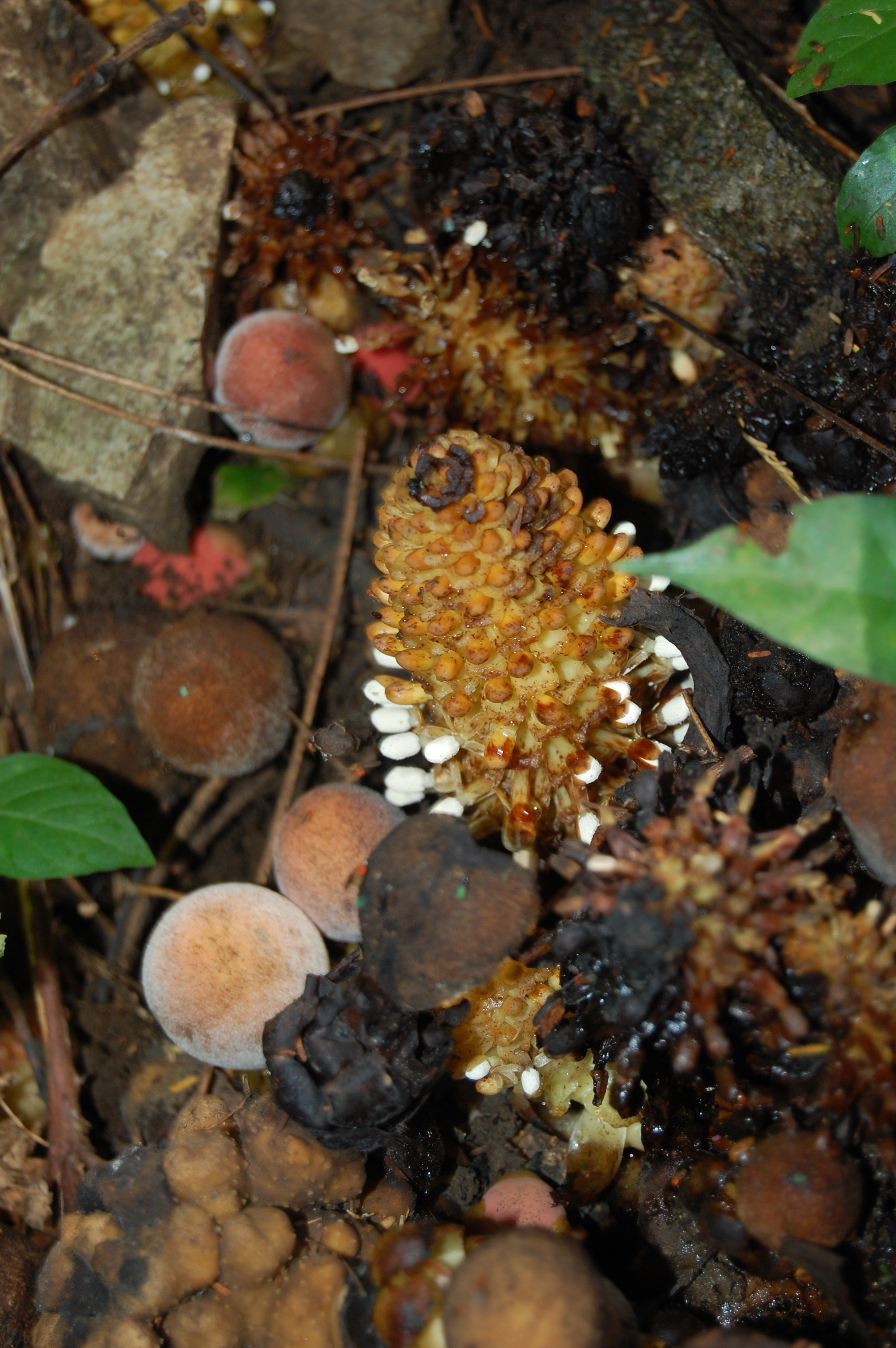 Balanophora indica (Syn. Balanophora fungosa subsp. indica). Found in Northwest Thailand (Hup Patad cave)